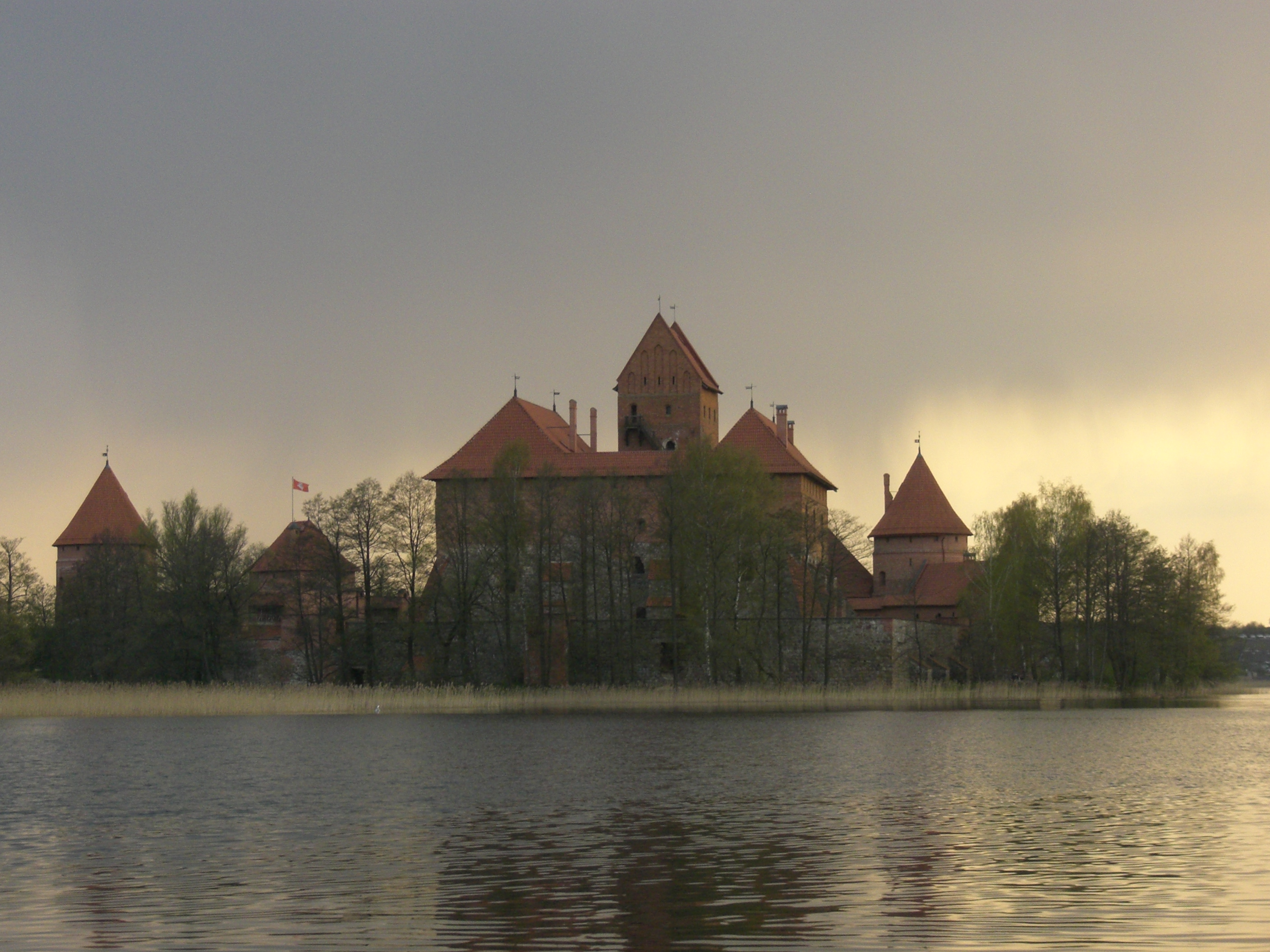 Trakai Island Castle, Lithuania.